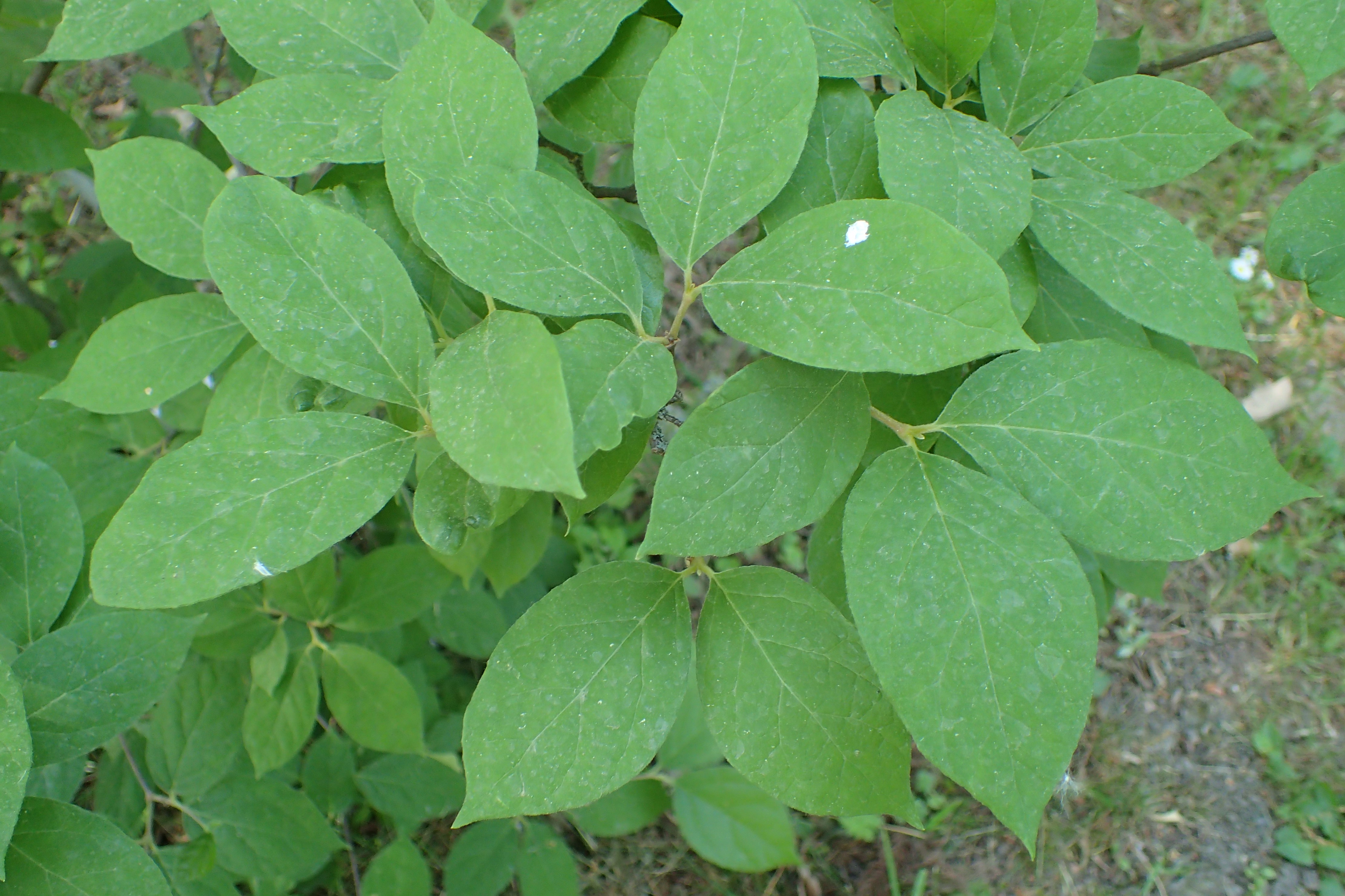 Calycanthus floridus in Botanical Garden of Szeged